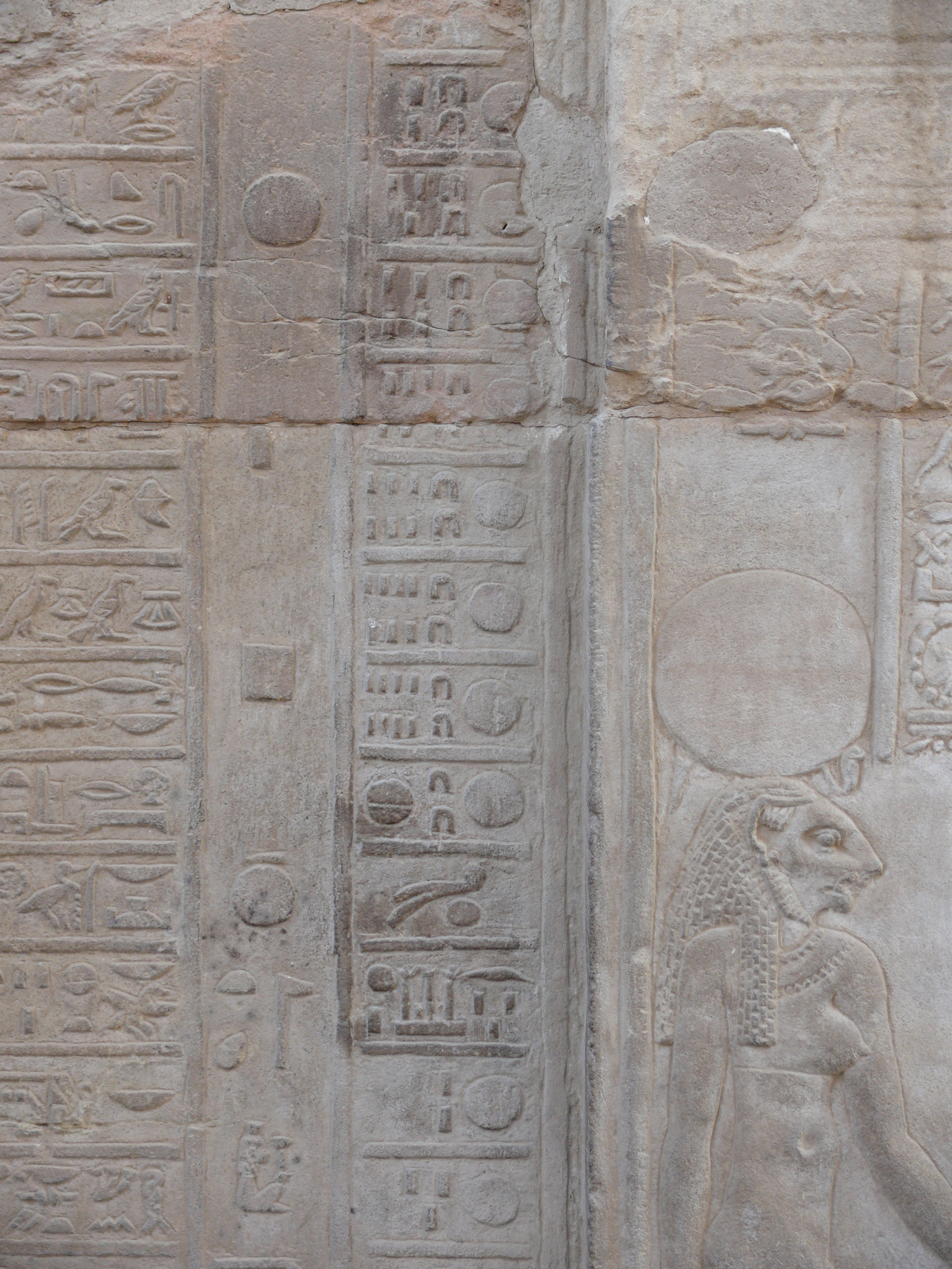 Calendar in the temple of Kom Ombo. The calendar shows the hieroglyphics for the days of the fourth month of the harvest and the first day of the first month of the flood (scroll over for translation). The hieroglyph Peht on 30 Mes. indicates the end of the harvest season. The five epagomenal days are not listed.